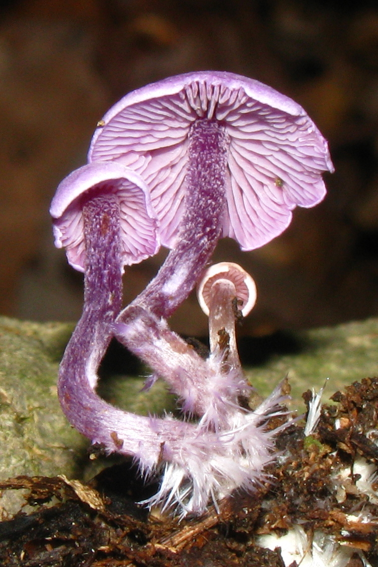 Pseudobaeospora sp. ((Singer) Bas) Location: Strouds Run State Park, Athens, Ohio, USA